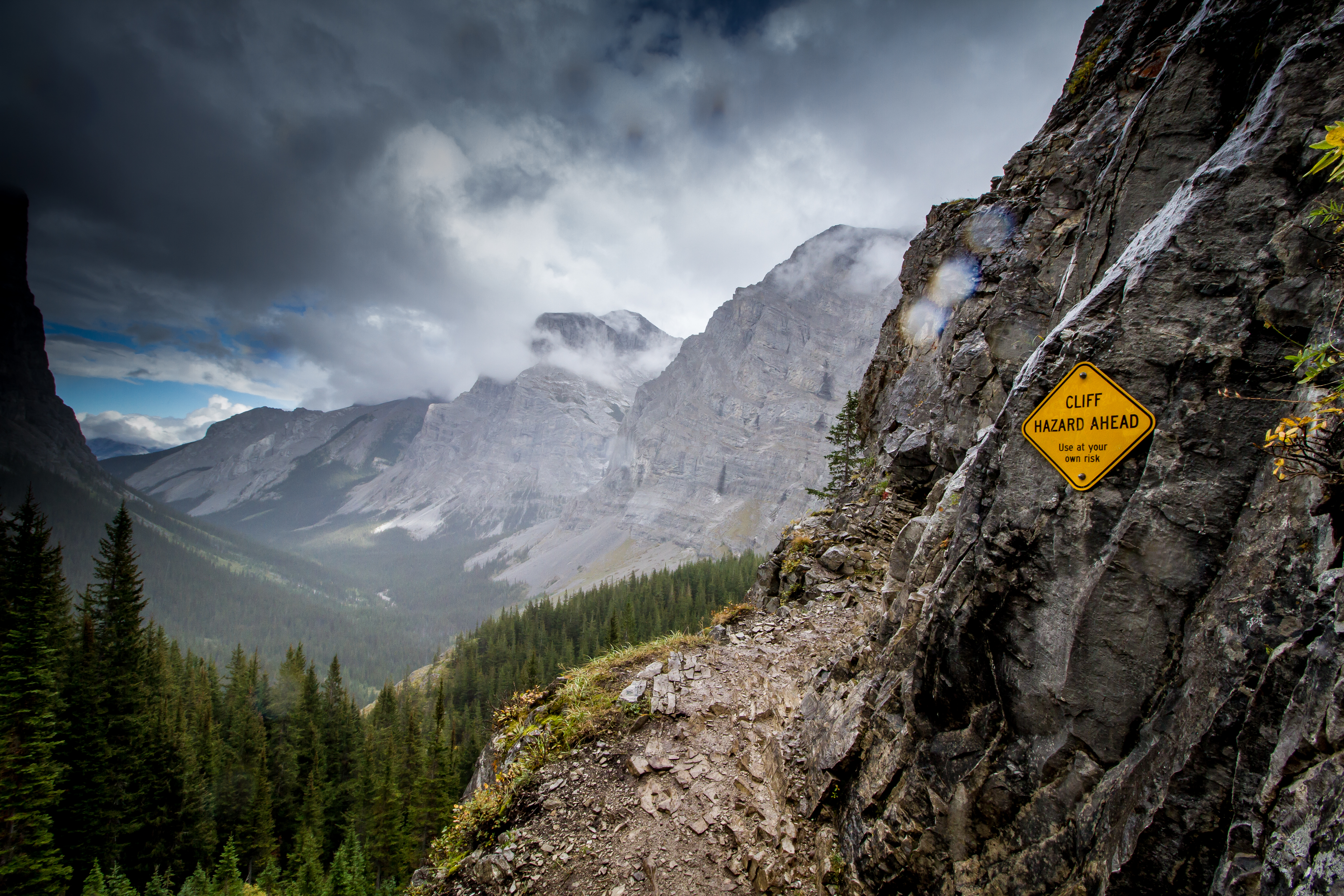 A storm rolling into the Ribbon Creek valley is viewed from the trail leading up the cliff face beside the falls. This photo was taken in a protected area in Canada, Wikidata item Spray Valley Provincial Park (Q3364735)